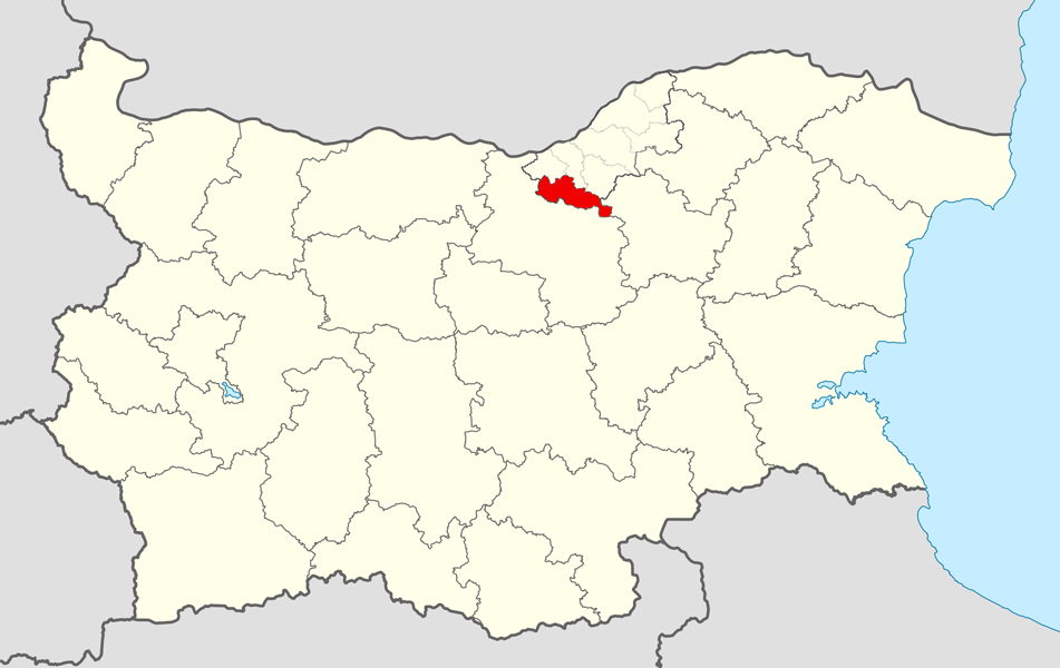 Location map of Byala Municipality within Bulgaria and Ruse Province. Equirectangular projection, N/S stretching 130 %. Geographic limits of the map: N: 44.4° N S: 41.1° N W: 22.1° E E: 28.9° E